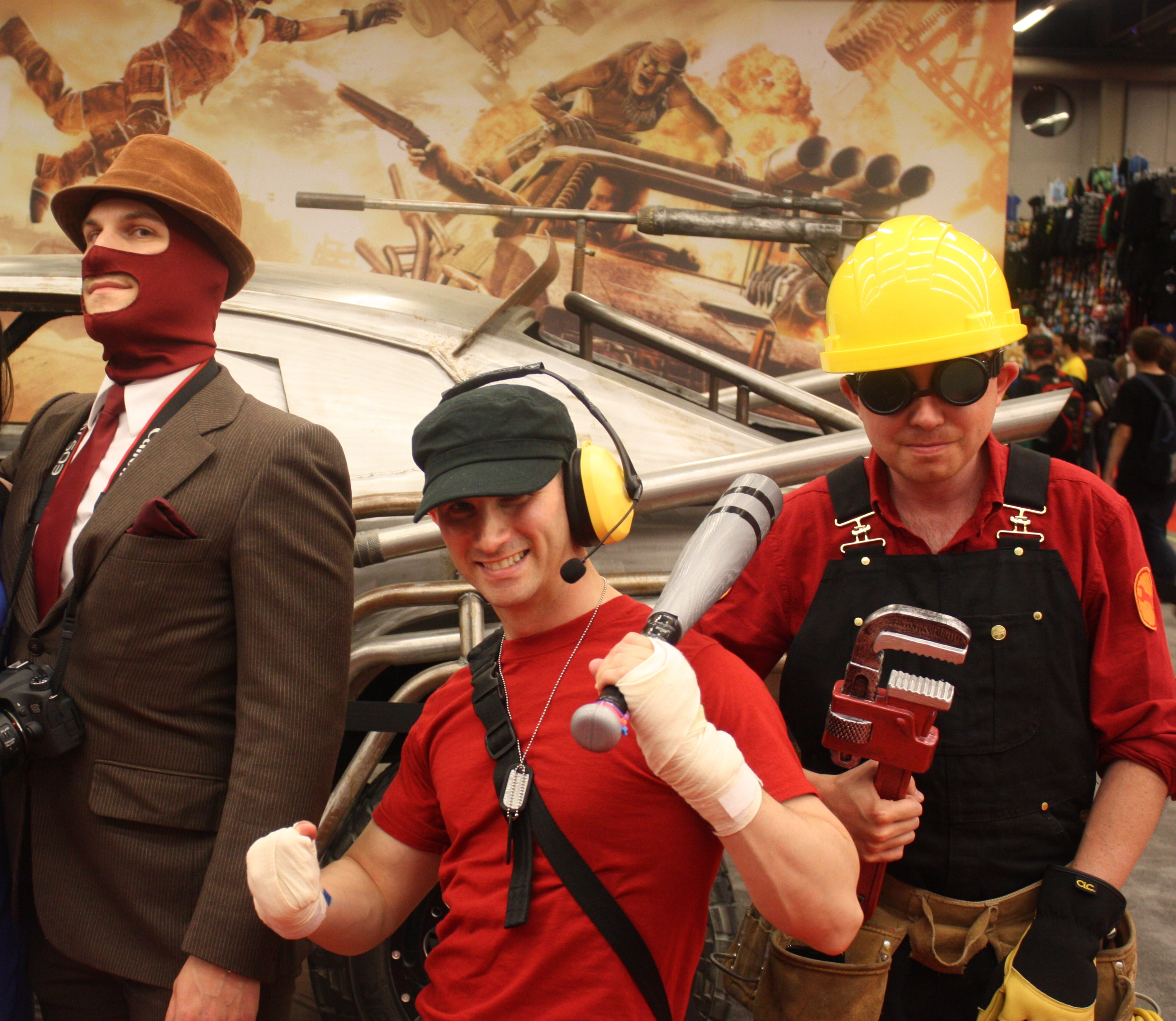 Cosplay one day two of Montreal Comiccon 2015. From left to right: the Spy, Scout and Engineer characters from Team Fortress 2.